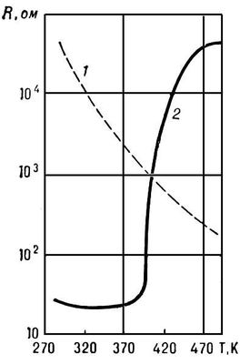 Thermistor RT dependence. 1st - for R 0